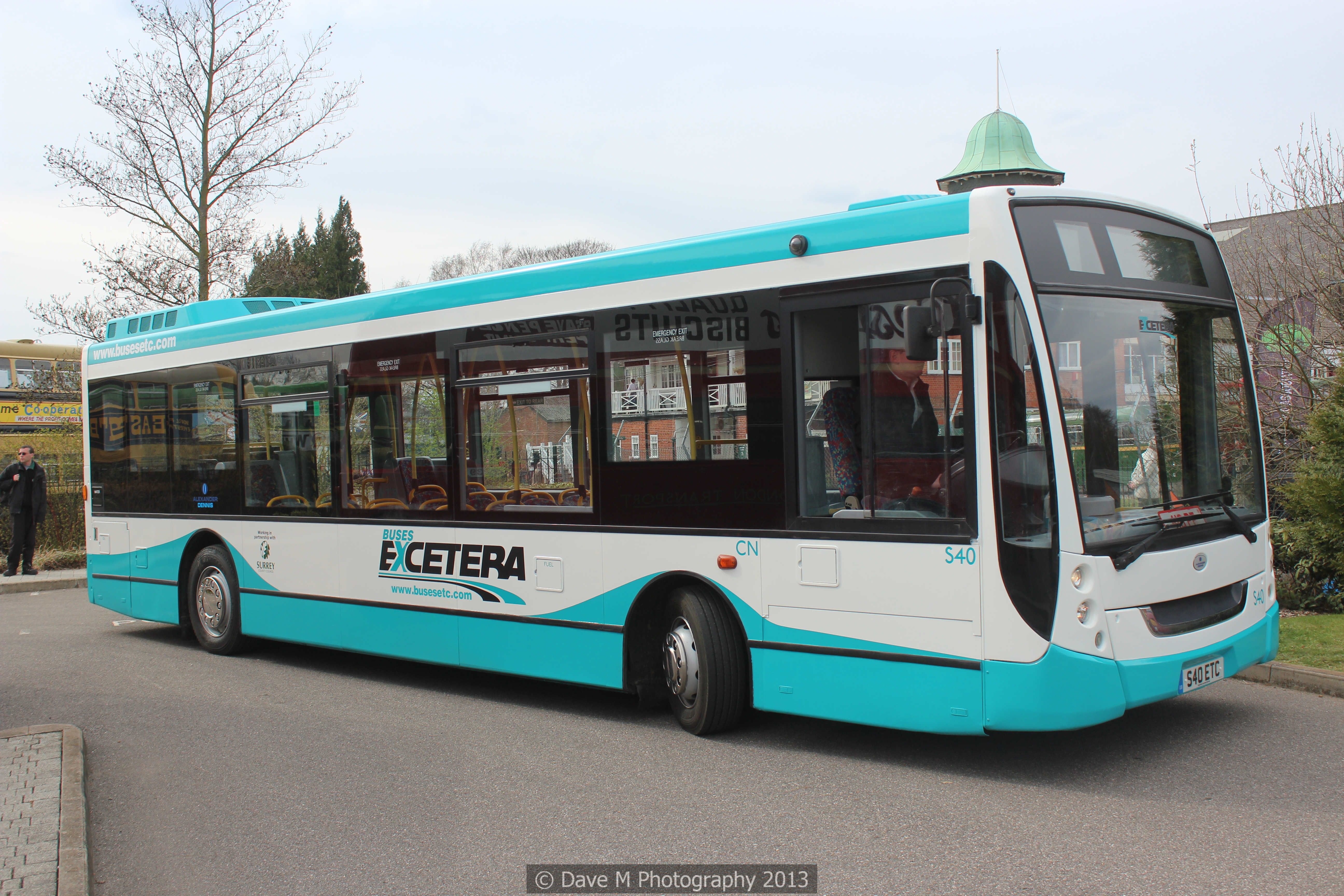 Cobham Bus Rally 2013